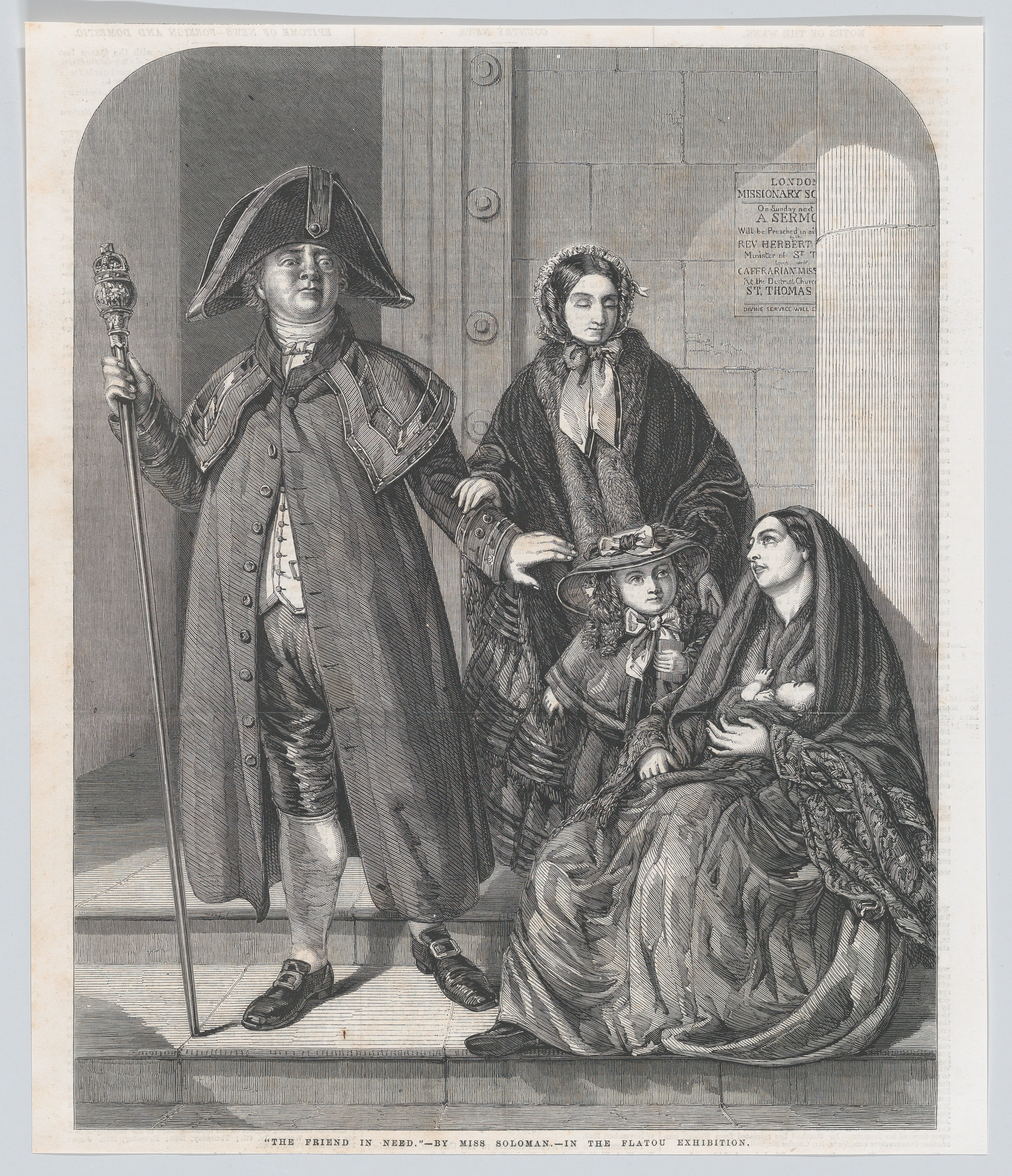 Prints